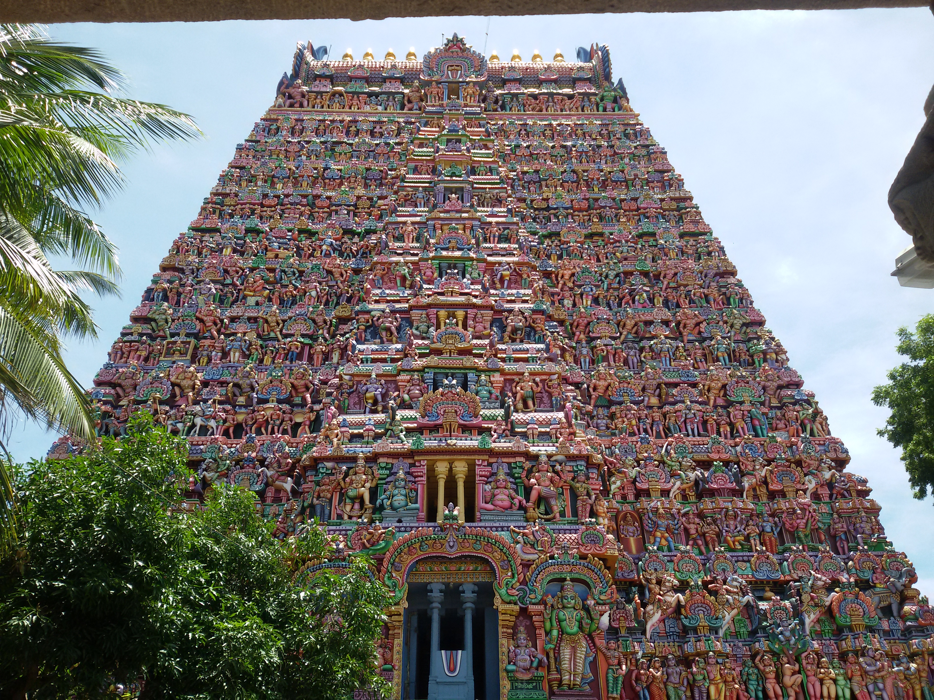 Sarangapani Temple Kumbhaconam